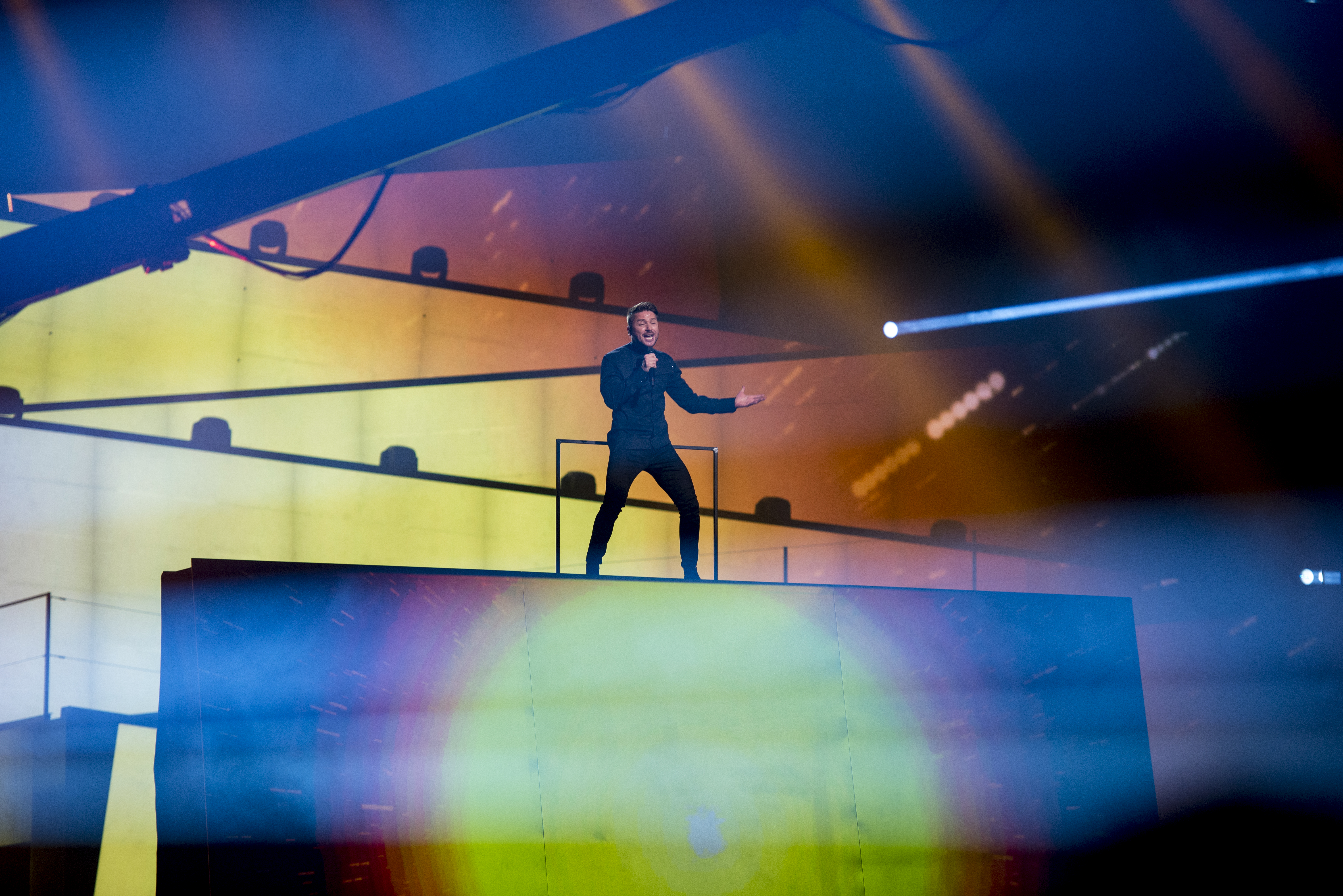 Sergey Lazarev representing Russia with the song "You Are the Only One" during a rehearsal before the first semi final of the Eurovision Song Contest 2016 in Stockholm. (Help translate this text)